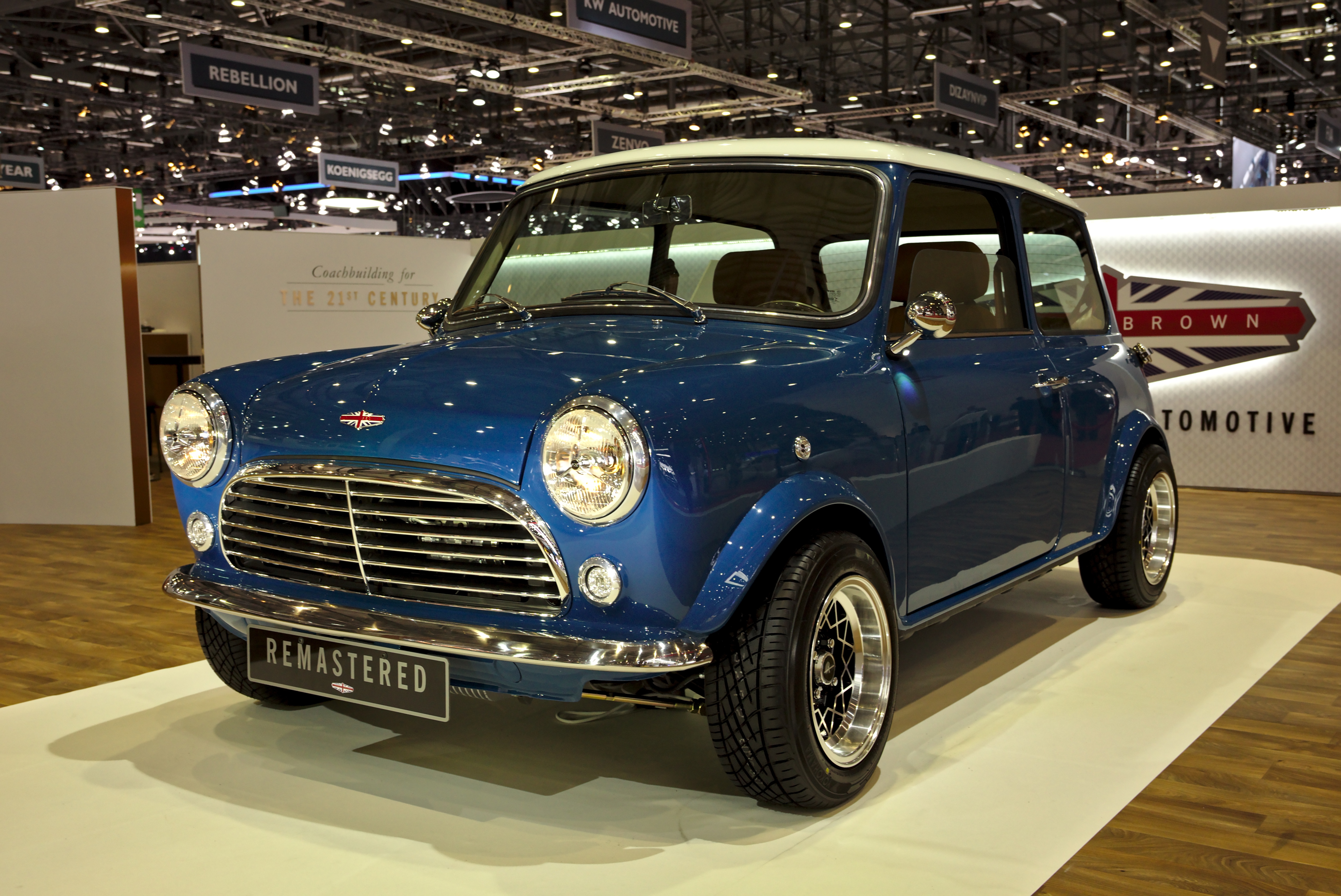 David Brown Mini Remastered at Geneva Motorshow 2018